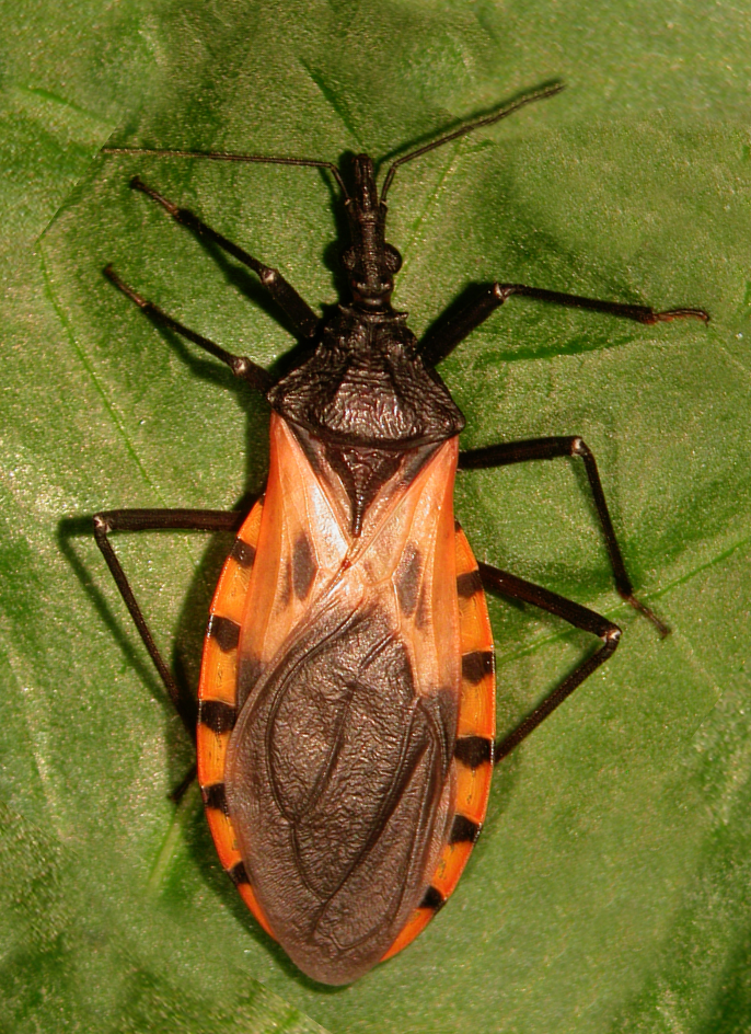 Rotated and completed one antennae of the image already existing in commons to render this insect more directly comparable to other species of the same genera